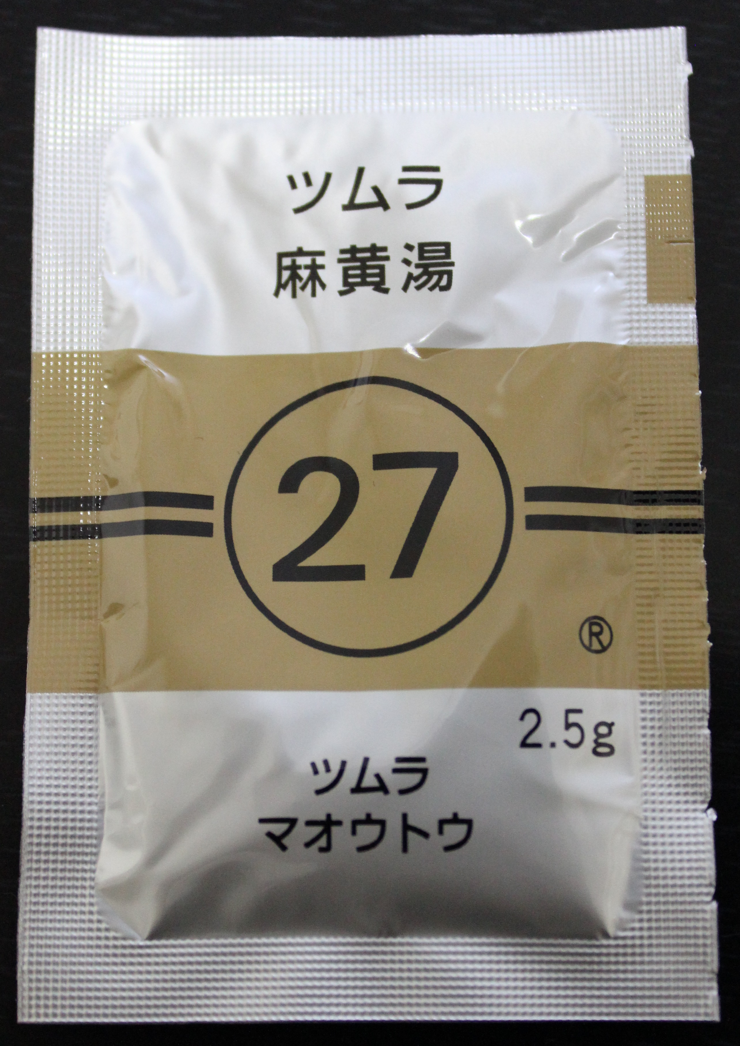 Chinese medicine whose name is Maoutou